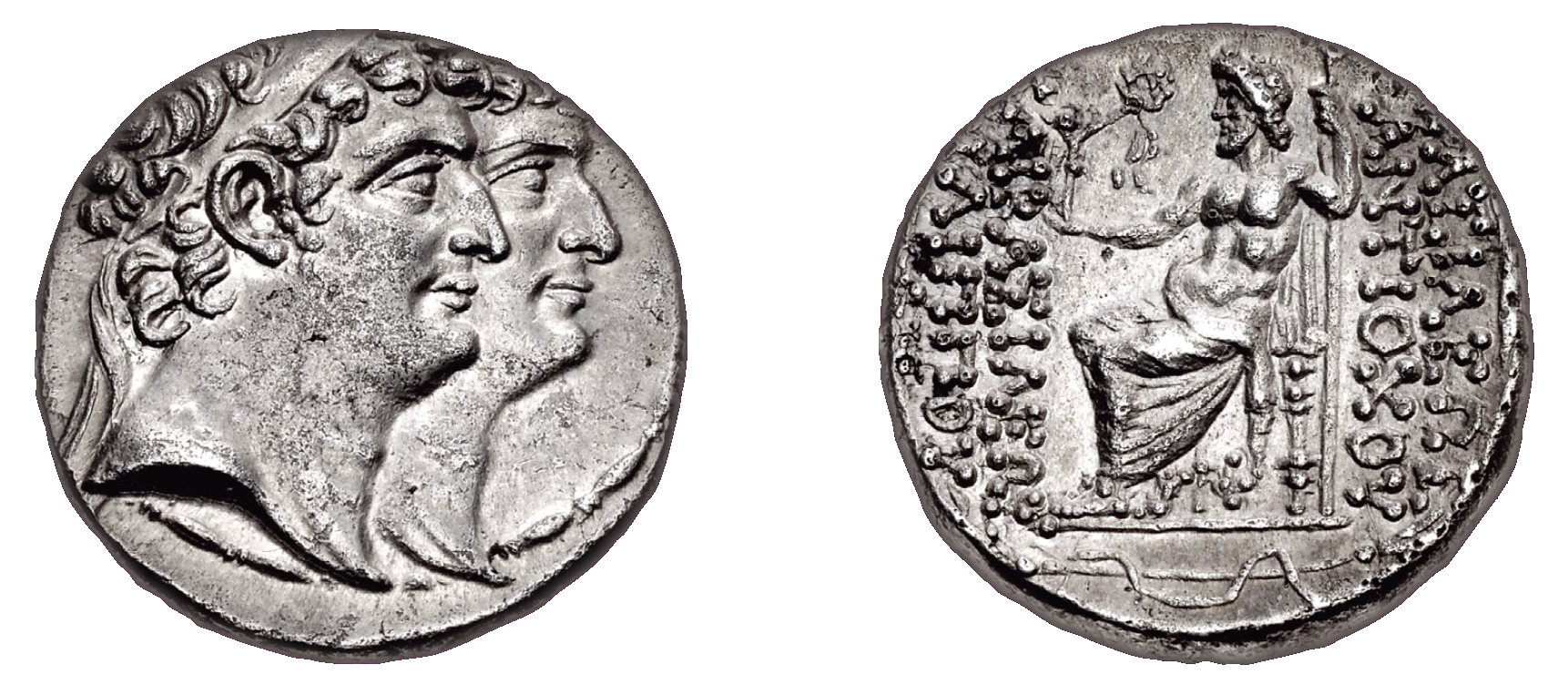 jugate coin of ANtiochus and his brother Philip I 93 BC SC 2438